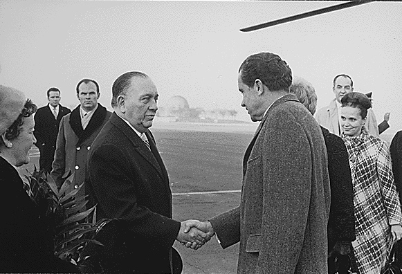 U.S. President Richard M. Nixon (right) shakes hands with Chicago Mayor Richard Daley on his arrival in Chicago, Illinois, 02/06/1970